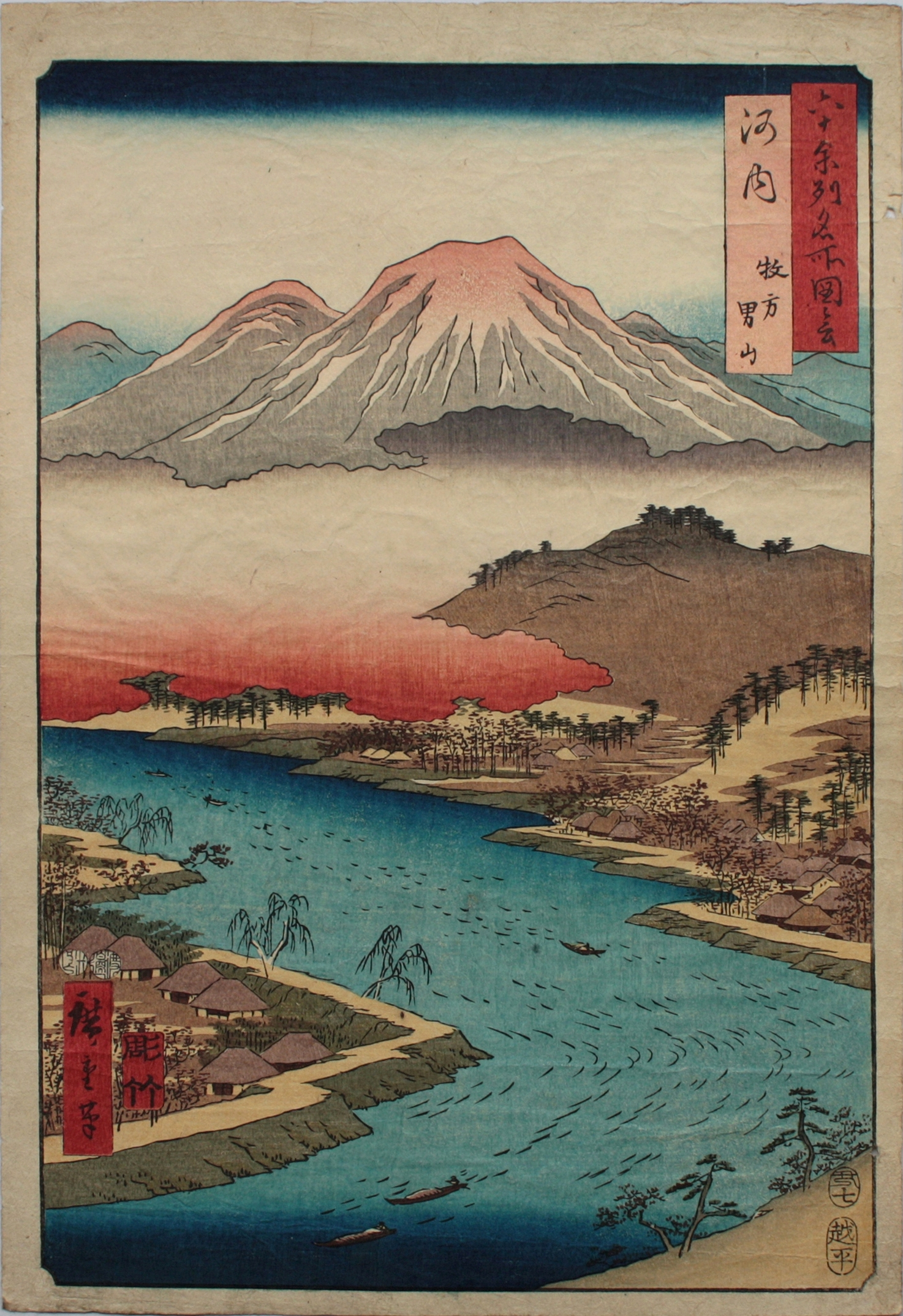 Kawachi Hirakata of the Famous Scenes of the Sixty States.